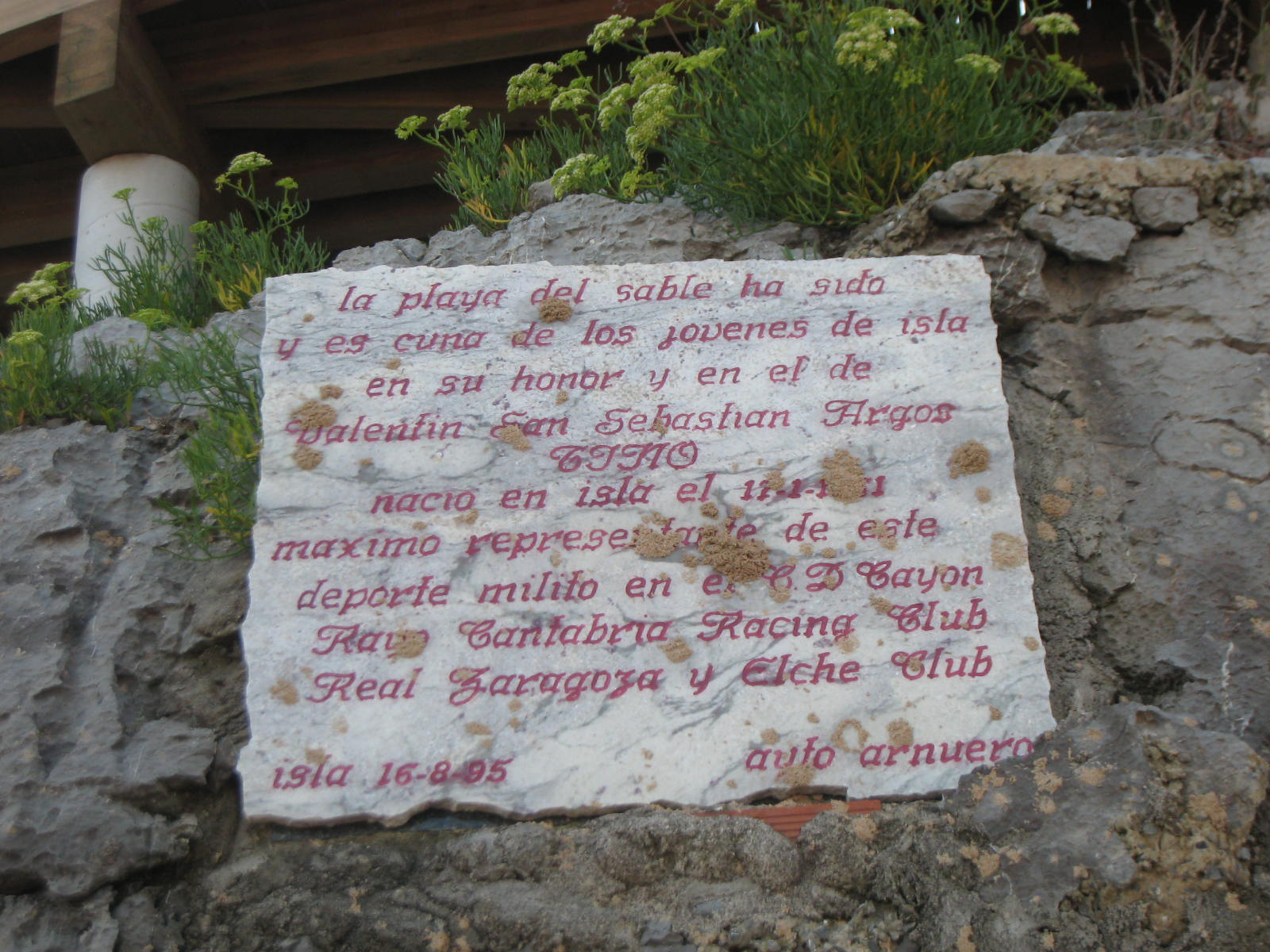 Quejo Beach in Cantabria (Spain). Plate dedicated to Valentin San Sebastian Argos